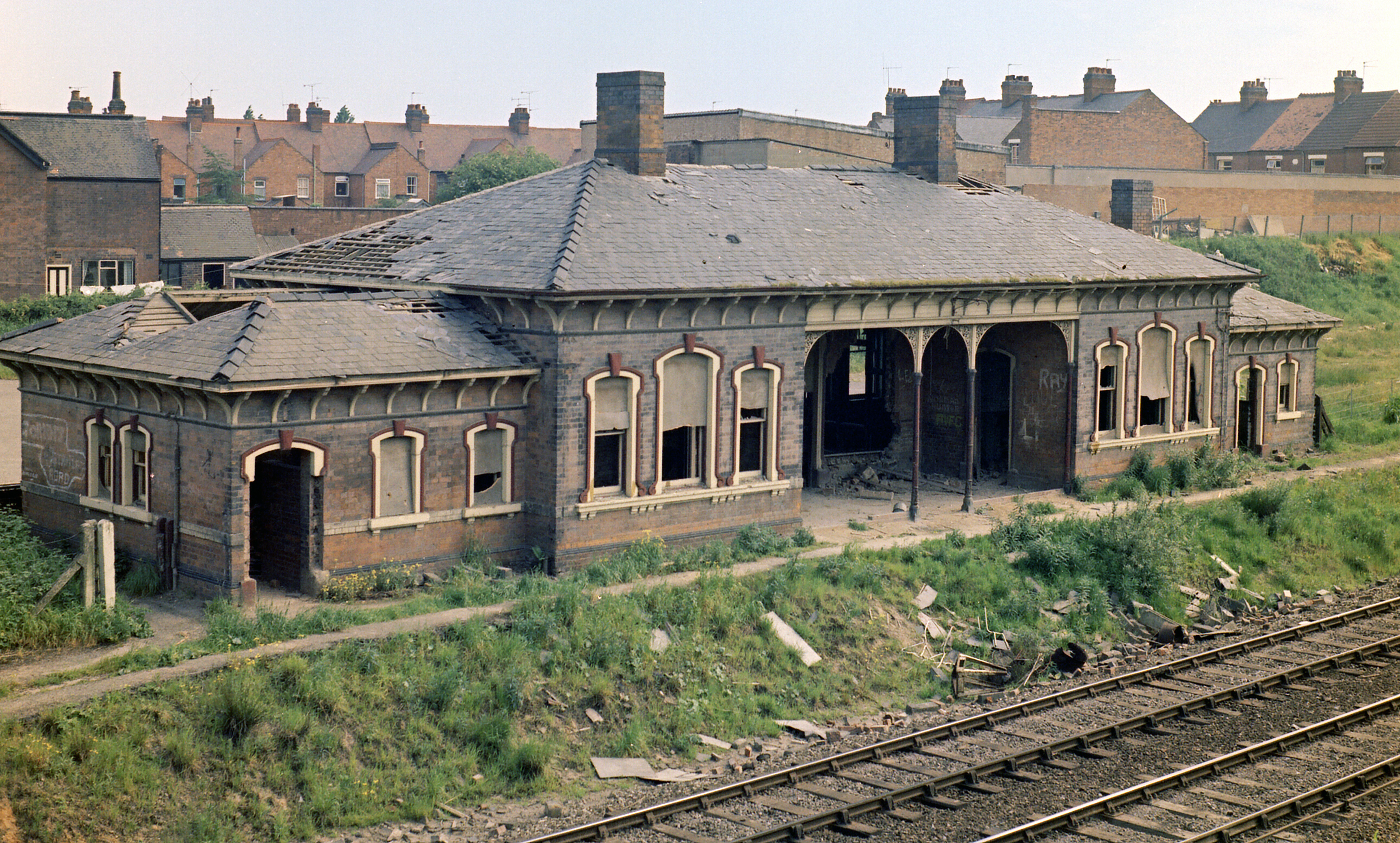 The derelict Nuneaton Abbey Street station, 7/6/75.